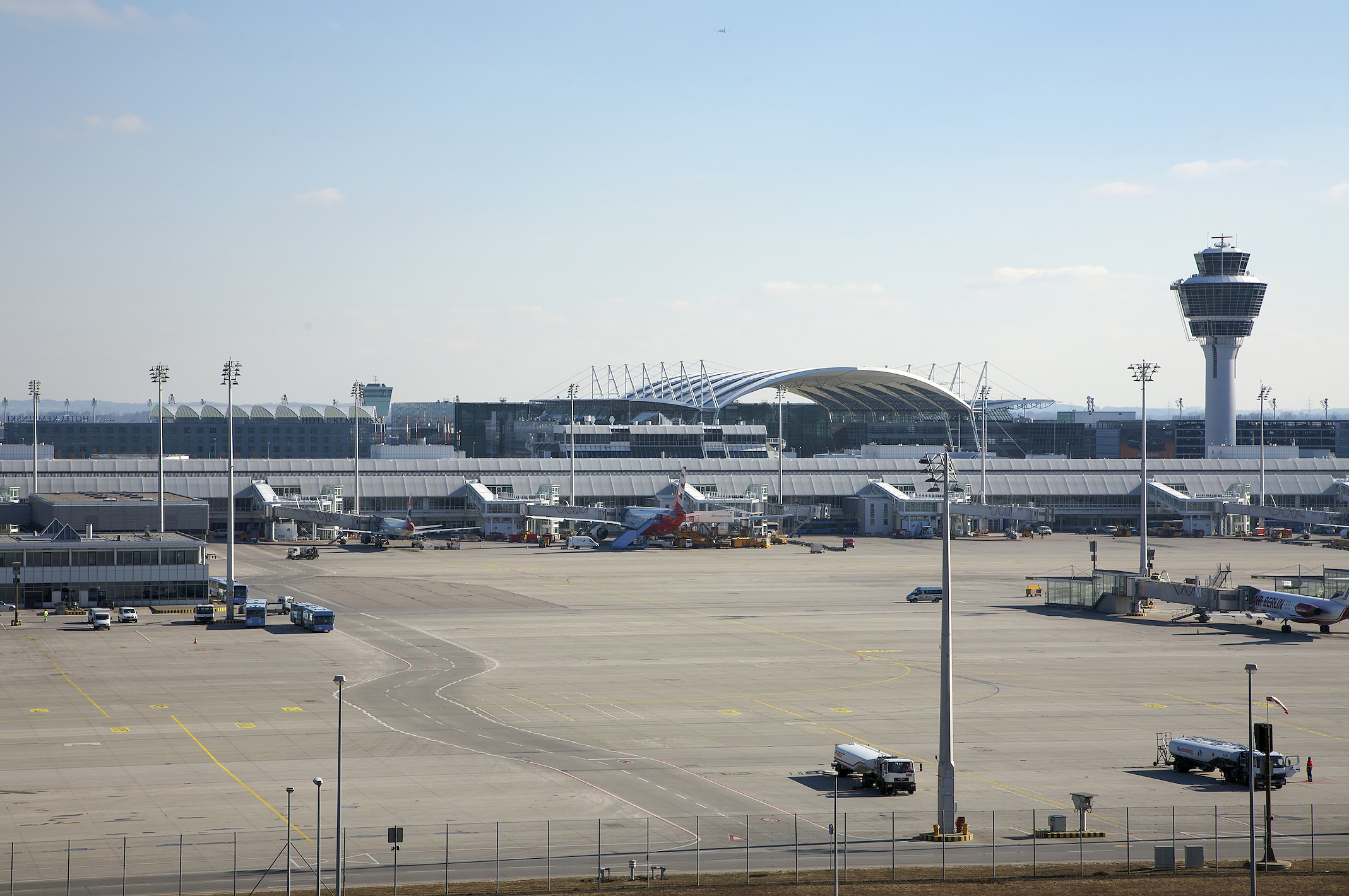 Munich Airport "Franz Joseph Strauss"